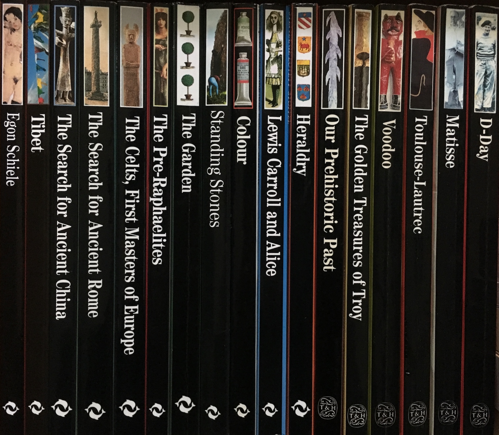 Thames & Hudson’s ‘New Horizons’ series, the UK edition of ‘Découvertes Gallimard’. List of books (from left to right): Egon Schiele: The Egoist (2007) by Jean-Louis Gaillemin; Tibet: Turning the Wheel of Life (2003) by Françoise Pommaret; The Search for Ancient China (1999) by Corinne Debaine-Francfort; The Search for Ancient Rome (1993) by Claude Moatti; The Celts: First Masters of Europe (1993) by Christiane Éluère; The Pre-Raphaelites: Romance and Realism (2000) by Laurence des Cars; The Garden: Visions of Paradise (1995) by Gabrielle van Zuylen; Standing Stones: Stonehenge, Carnac and the World of Megaliths (1999) by Jean-Pierre Mohen; Colour: Making and Using Dyes and Pigments (2000) by François Delamare and Bernard Guineau; Lewis Carroll and Alice (1997) by Stephanie Lovett Stoffel; Heraldry: Its Origins and Meaning (1997) by Michel Pastoureau; Our Prehistoric Past: Art and Civilization (1998) by Denis Vialou; The Golden Treasures of Troy: The Dream of Heinrich Schliemann (1996) by Hervé Duchêne; Voodoo: Truth and Fantasy (1995) by Laënnec Hurbon; Toulouse-Lautrec: Painter of the Night (1994) by Claire and José Frèches; Matisse: The Sensuality of Colour (1994) by Xavier Girard; D-Day: The Normandy Landings and the Liberation of Europe (1994) by Anthony Kemp.